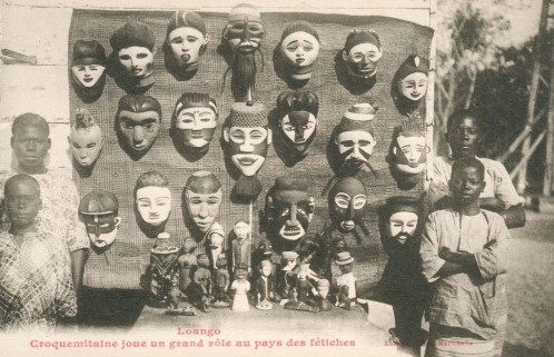 Loango-Bogeyman plays a great role in the country of fetishes